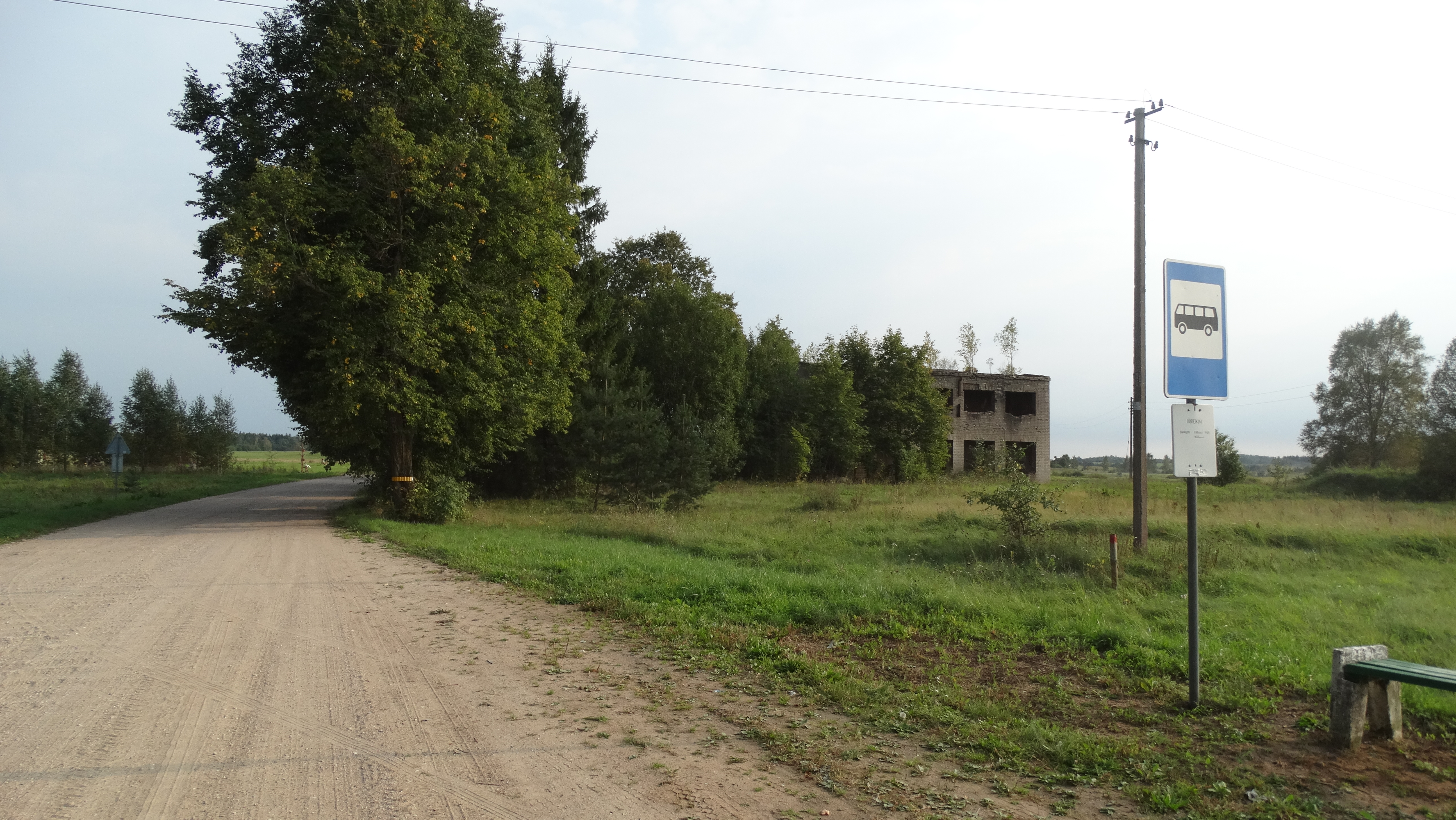 Barauka, Zarasai District, Lithuania